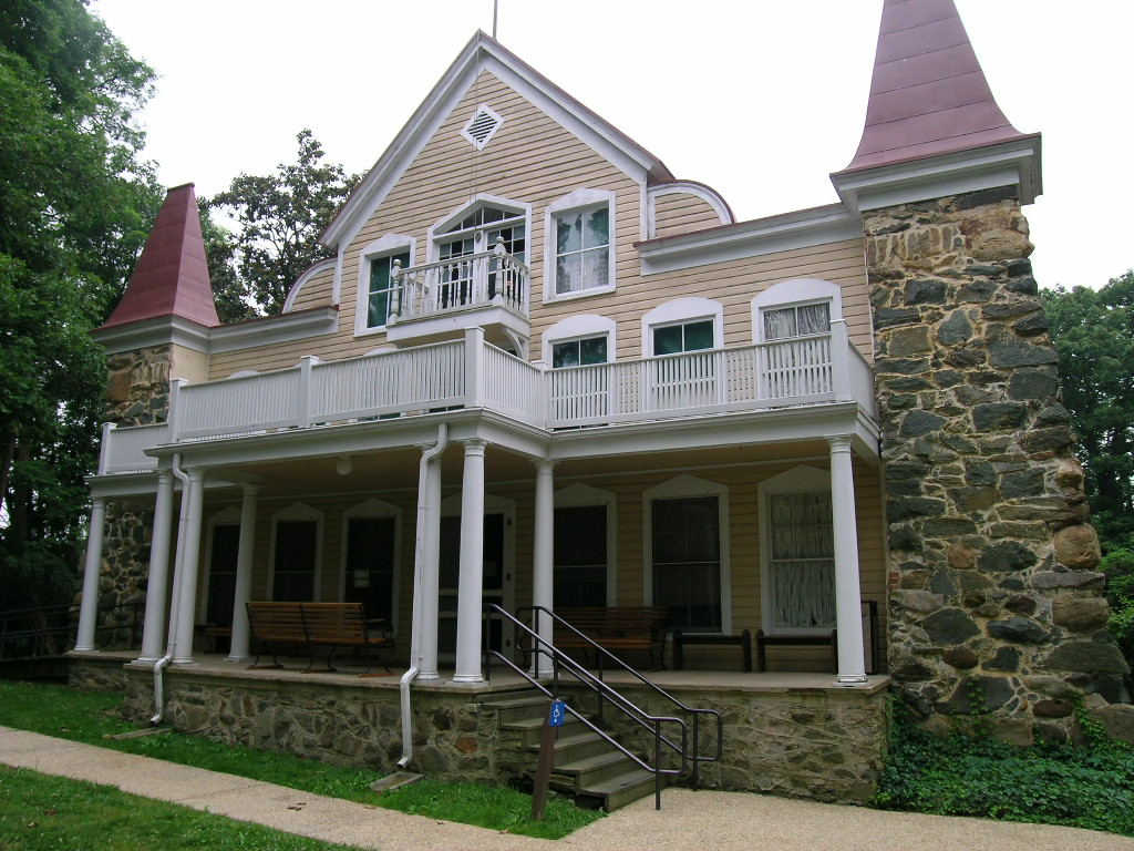 An exterior image of the Clara Barton House. It was built in 1891 and was the final home of Clara Barton, the founder of the American Red Cross. It is now a museum operated by the National Park Service.